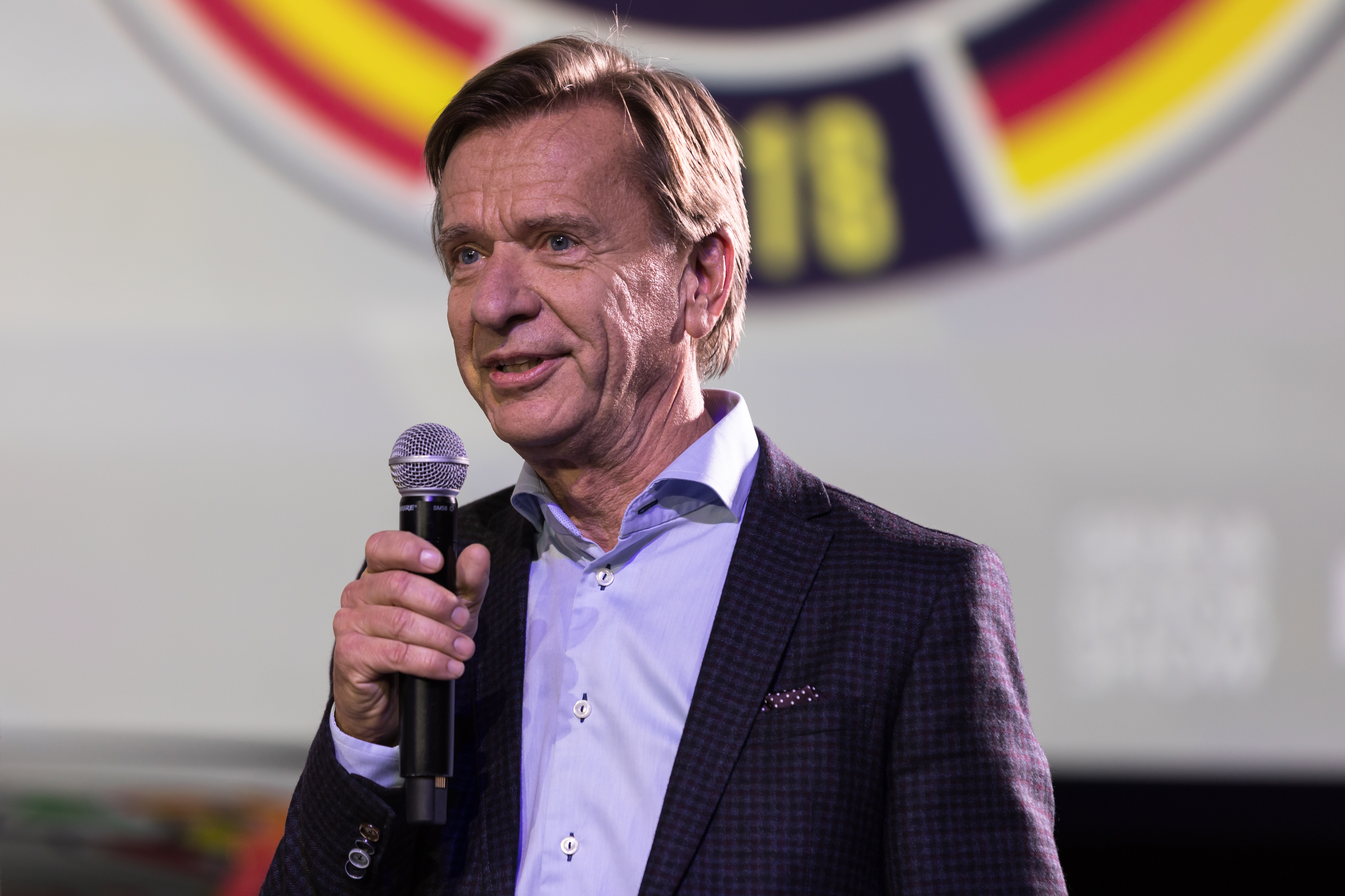 Håkan Samuelsson at COTY 2018